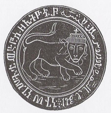 Seal of Tewodros II